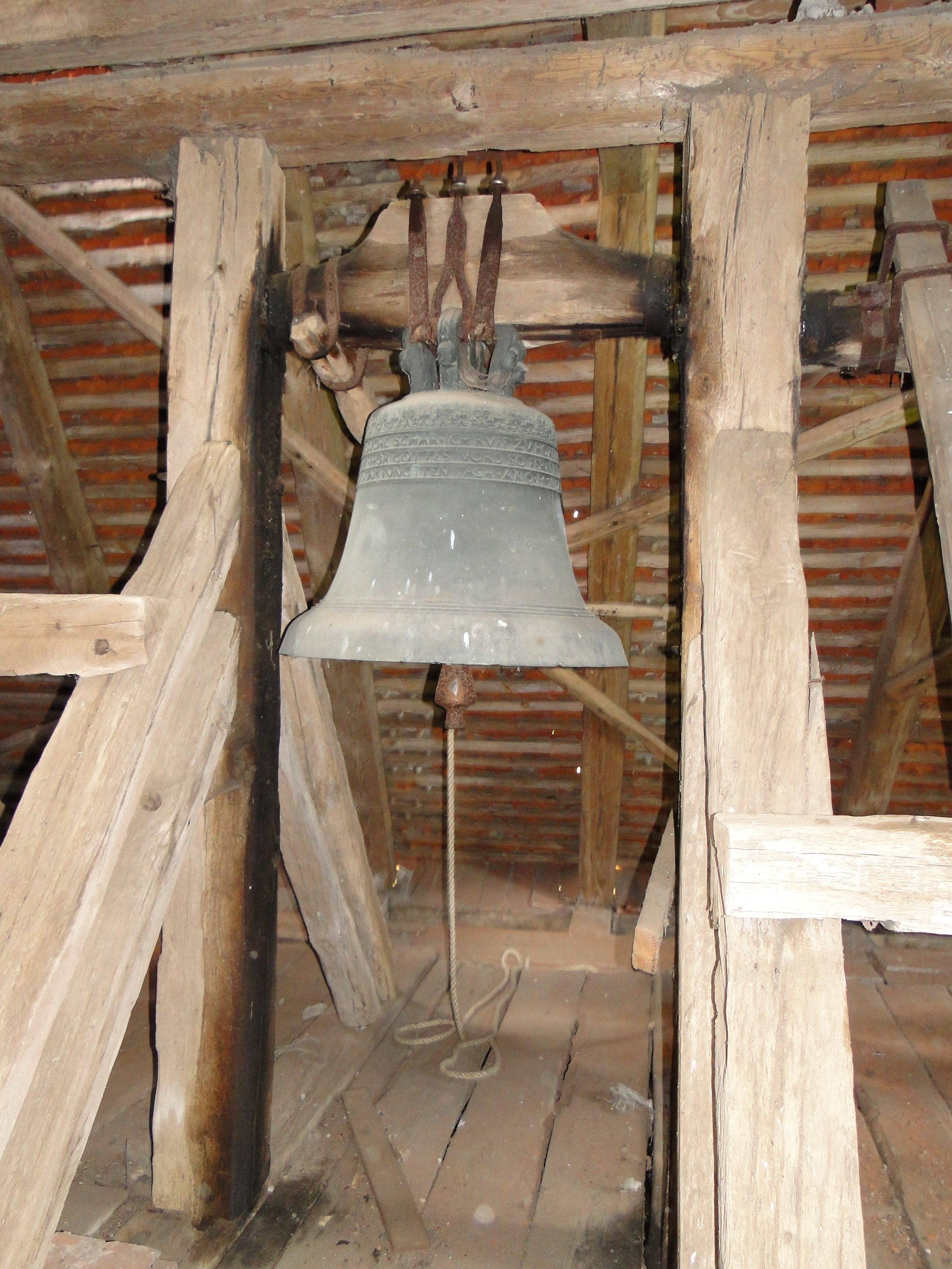 Church in Wessin, district Ludwigslust-Parchim, Mecklenburg-Vorpommern, Germany